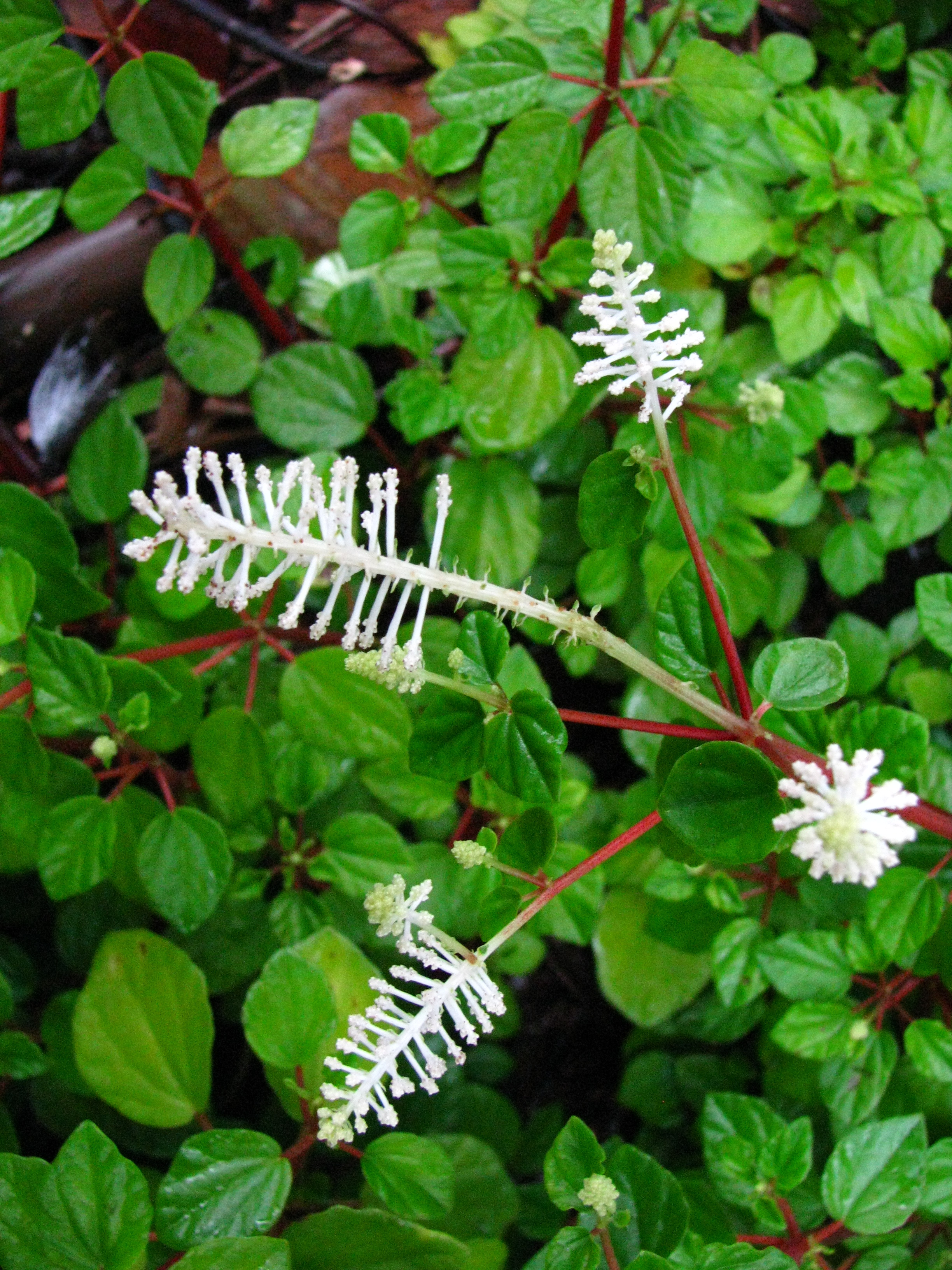 [Syn. Peperomia resediflora] Flowering peperomia Piperaceae Native to Ecuador Oʻahu (Cultivated)